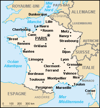 Map of France (wp-EN), with names in French